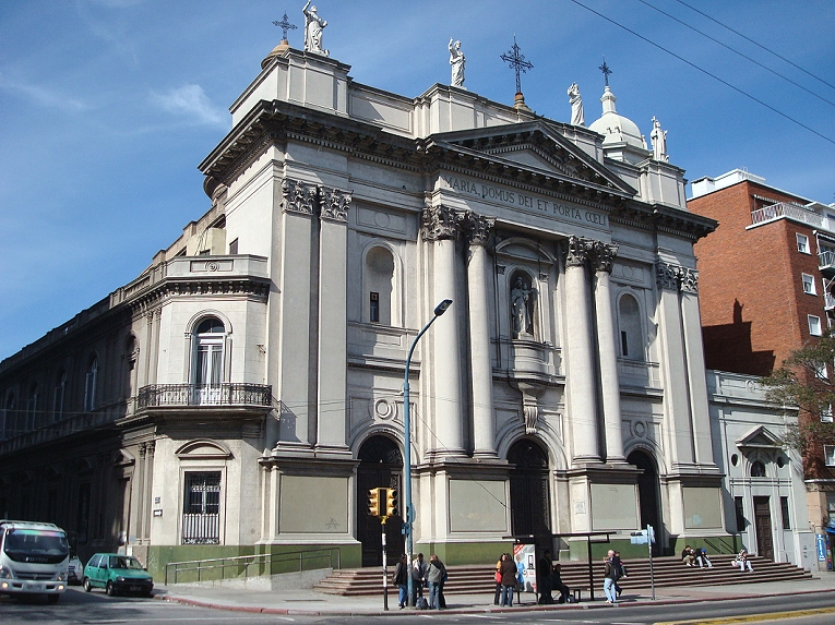 Basílica Nuestra Señora del Carmen in Aguada, Montevideo, Uruguay.